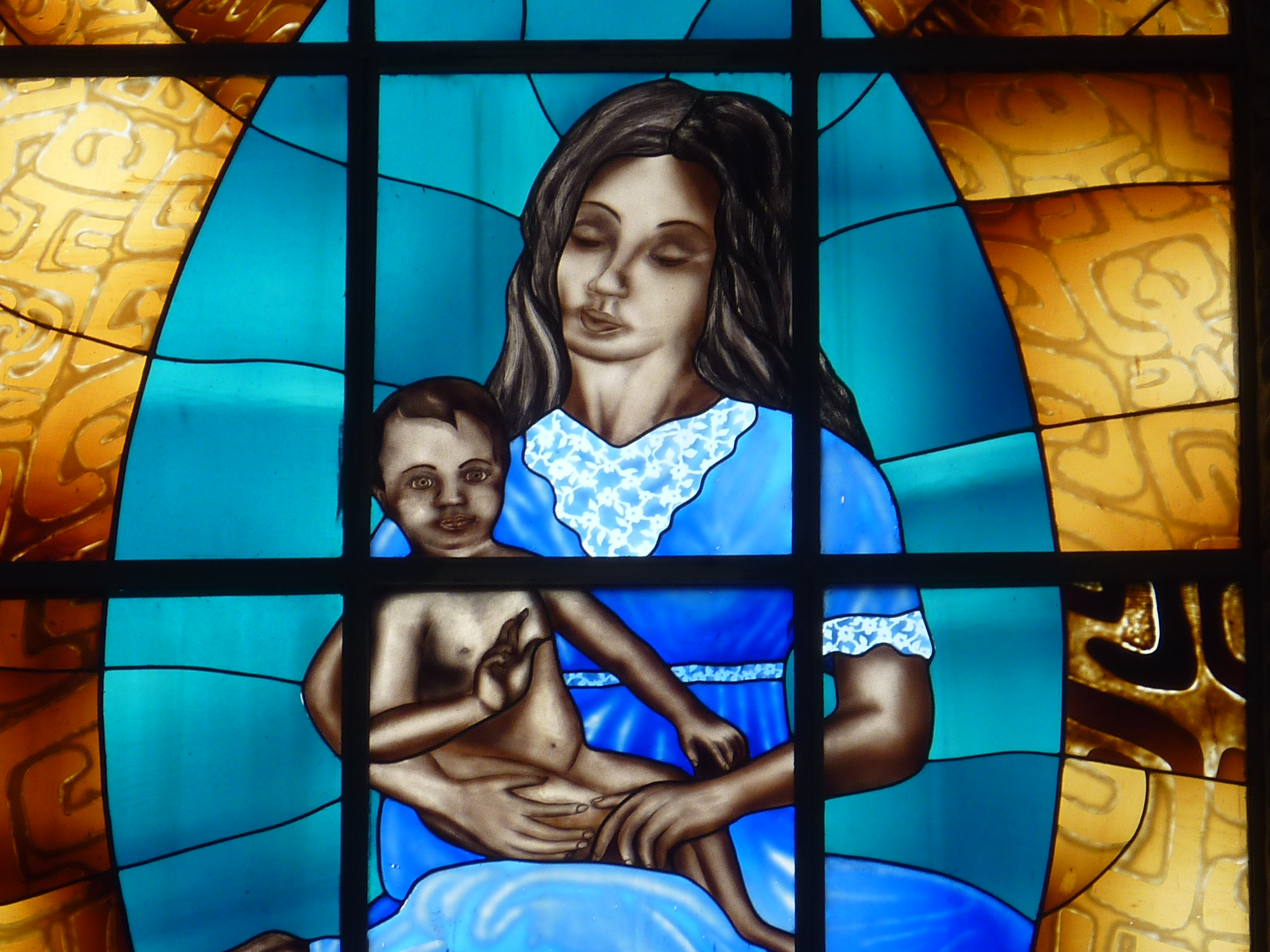 closeup of Madonna and child stained glass in Catholic church, Vaitahu, Tahuata, Marquesas Islands, French Polynesia